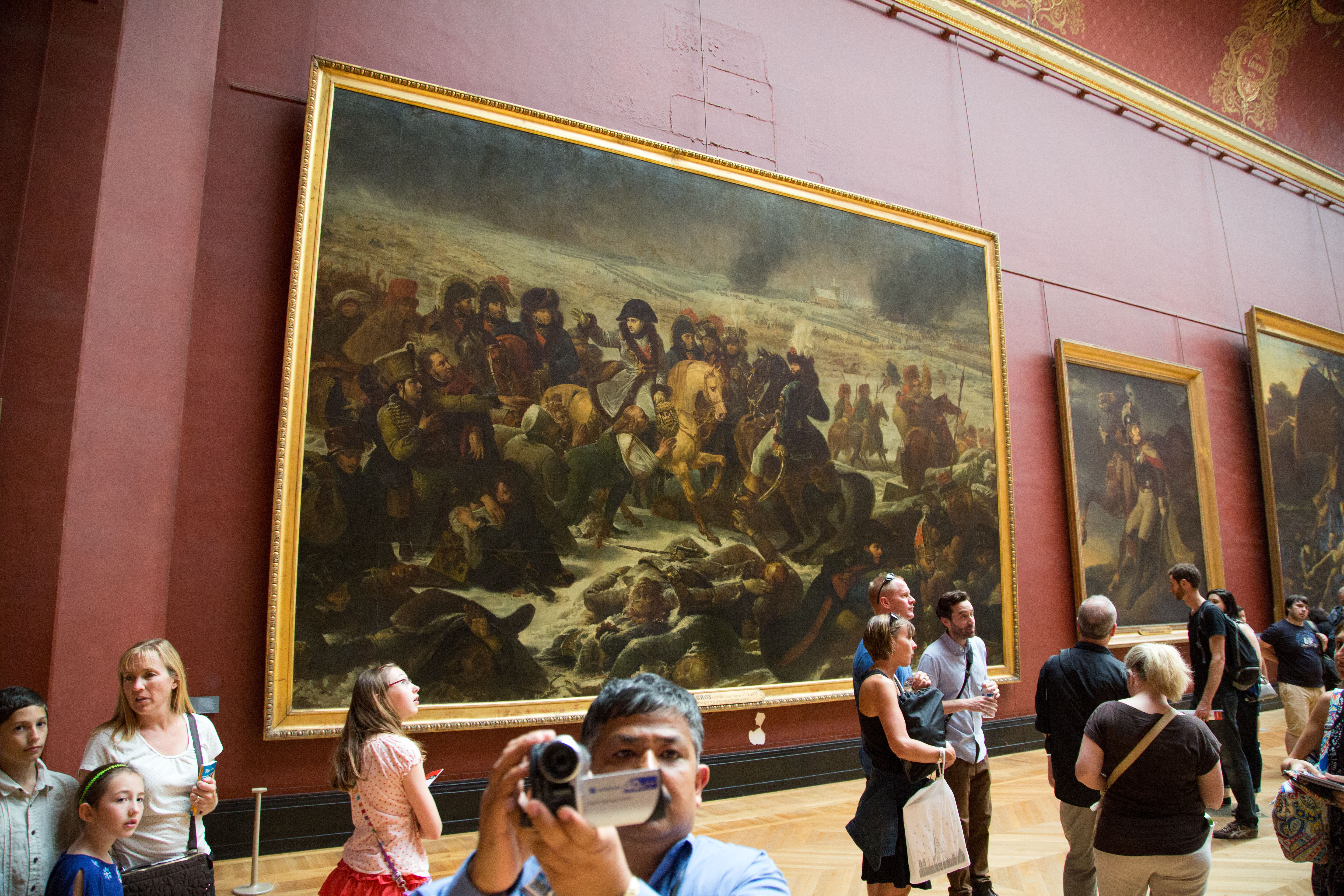 Louvre painting